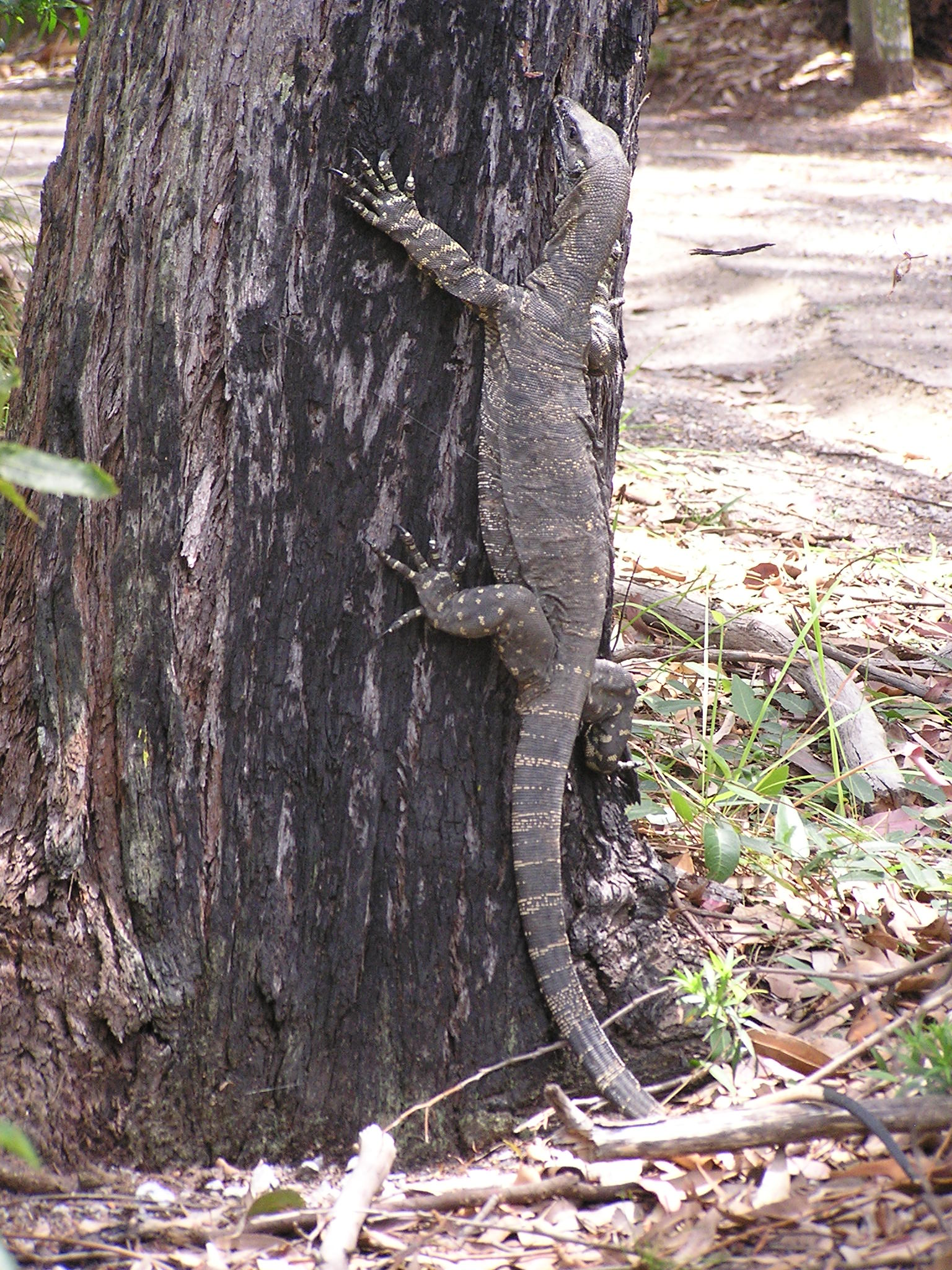 Varanus varius or Lace monitor photgraphed at Batemans Bay, New South Wales, Australia